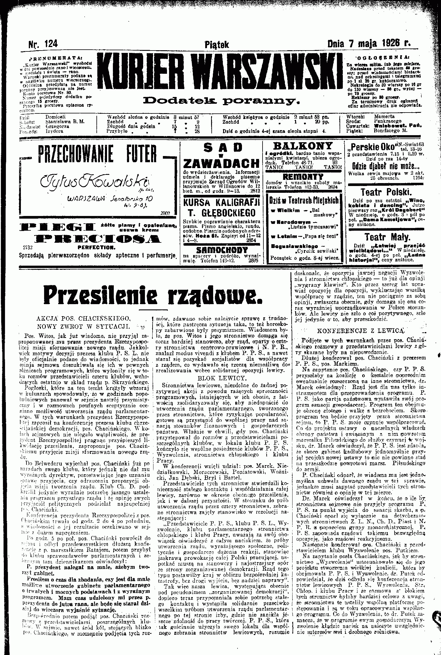 Polish "Kurjer Warszawski" title page